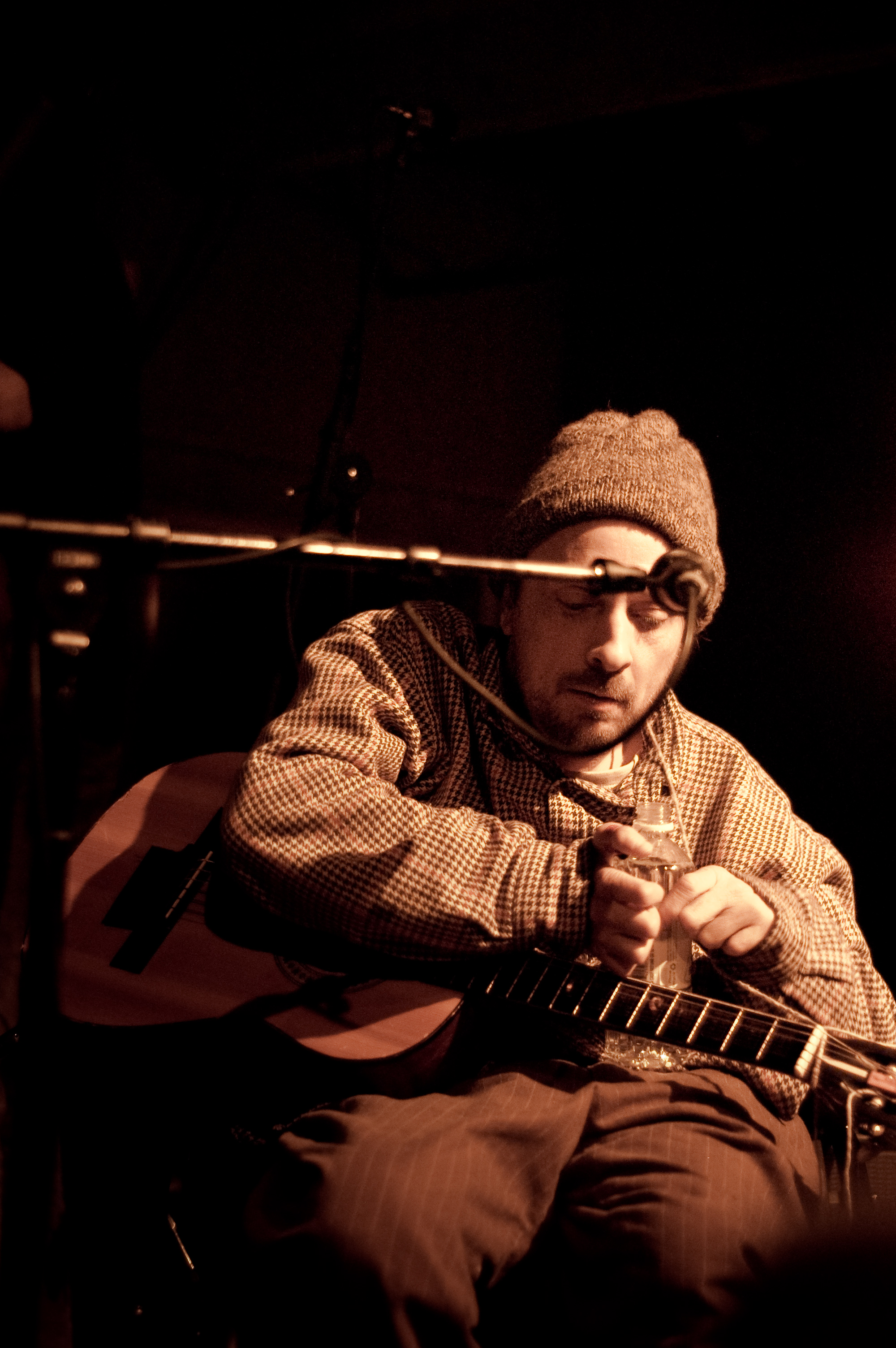 Chesnutt onstage